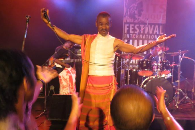 Jaojoby, musician from Madagascar known as the "King of Salegy", performing on his 2012 tour of USA and Canada